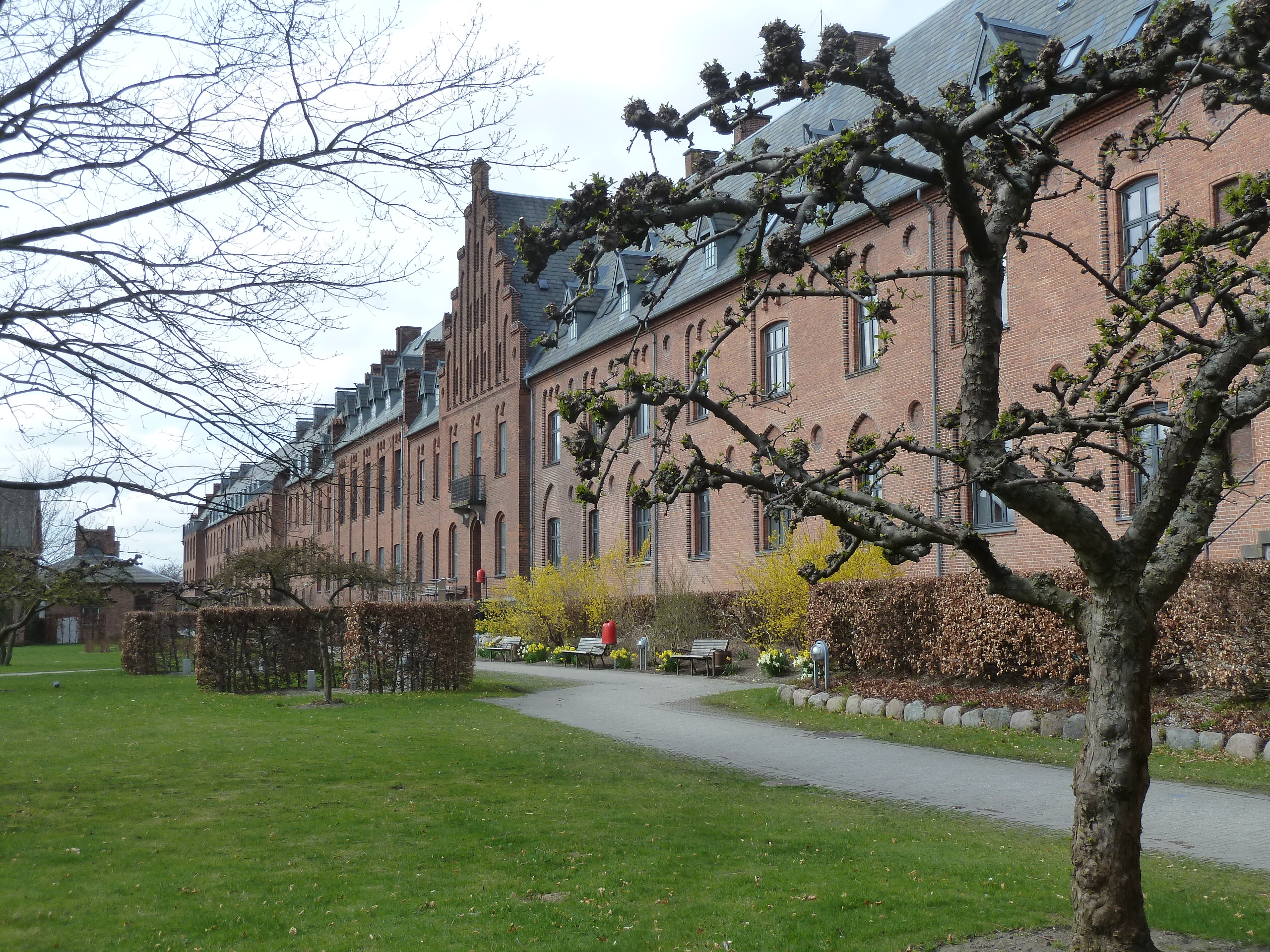 Diakonissestiftelsen in the Frederiksberg district of Copenhagen, Denmark